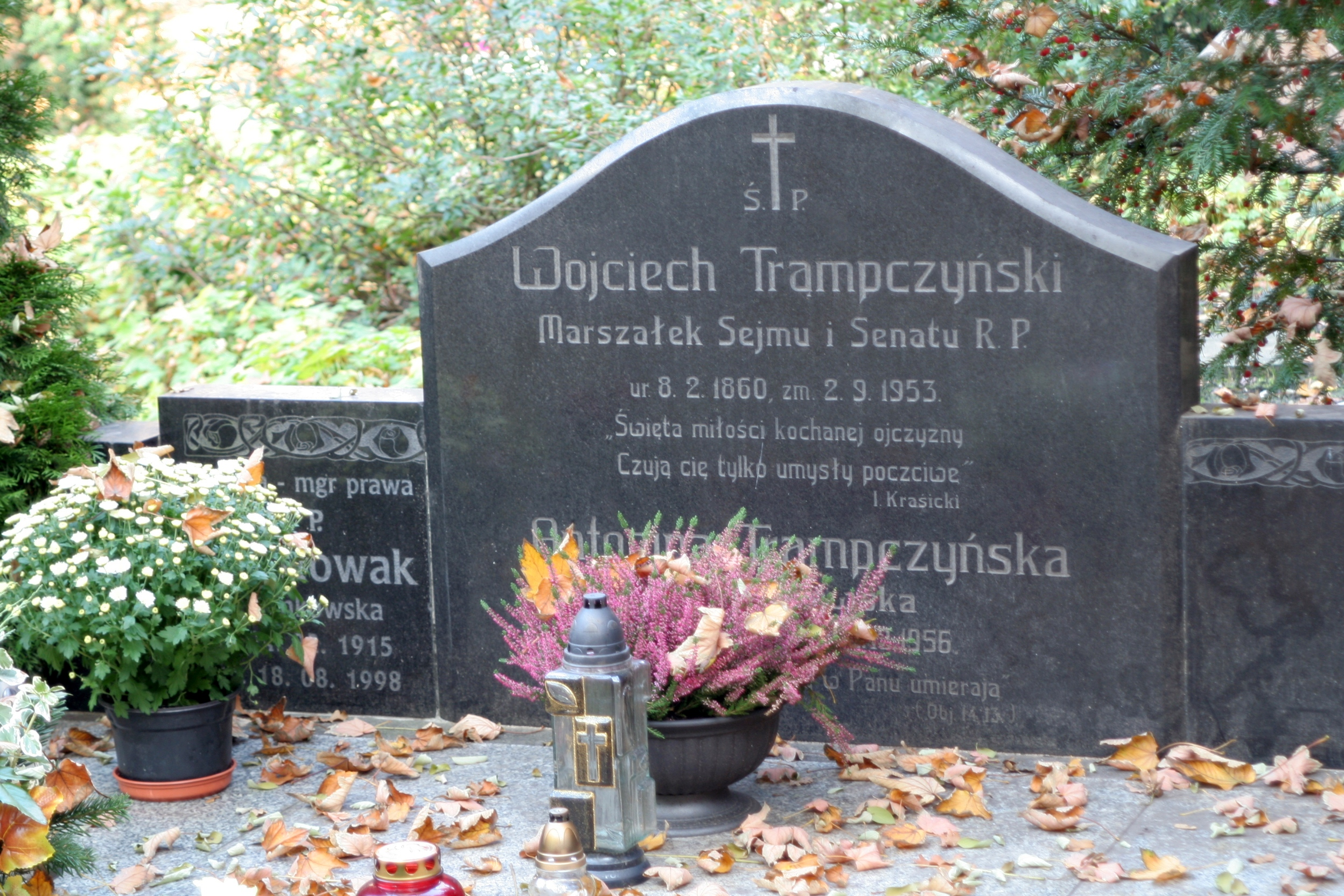 Wojciech Trąmpczyński's grave.